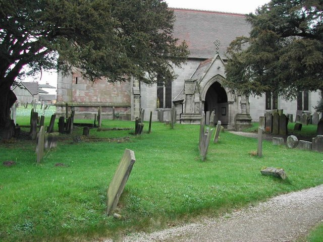 Ellastone Parish Church